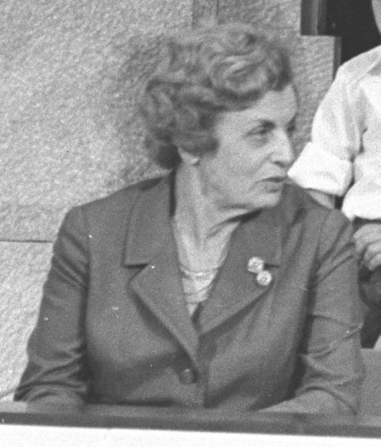 Nina Katzir at her husband's presidential inauguration